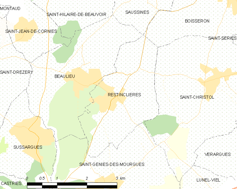 Map commune FR insee code 34227.png - Restinclières